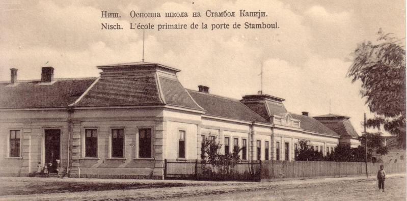 Stanbol Kapija, Elementary School, Niš, Serbia